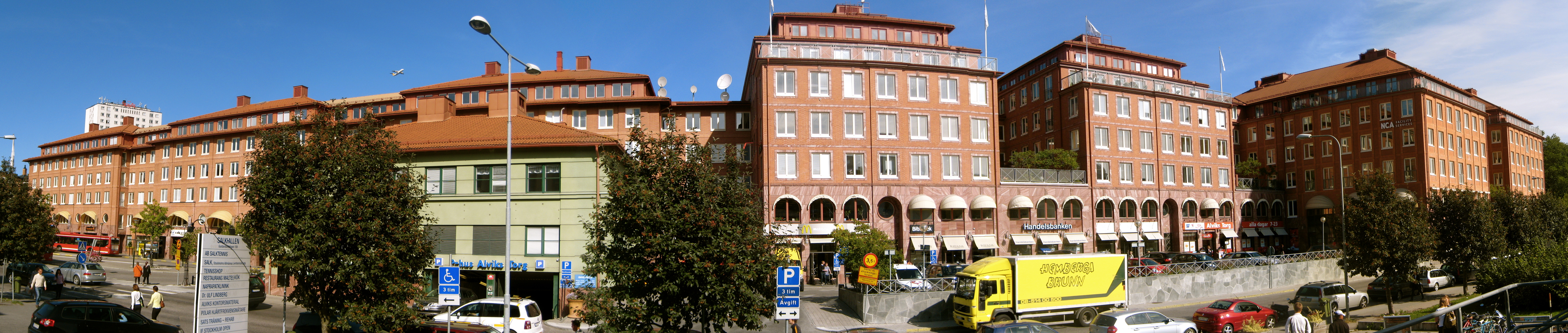 Alviks torg